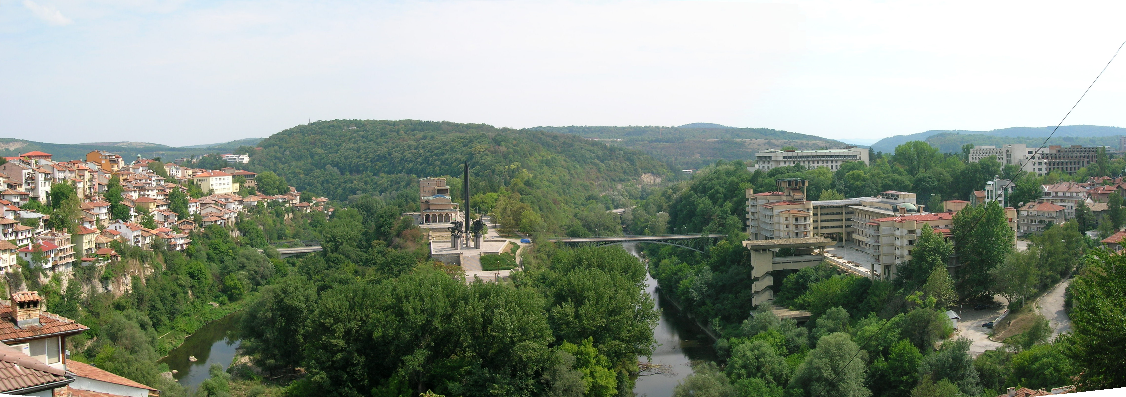 Panorama of Veliko Tarnovo (Bulgaria)